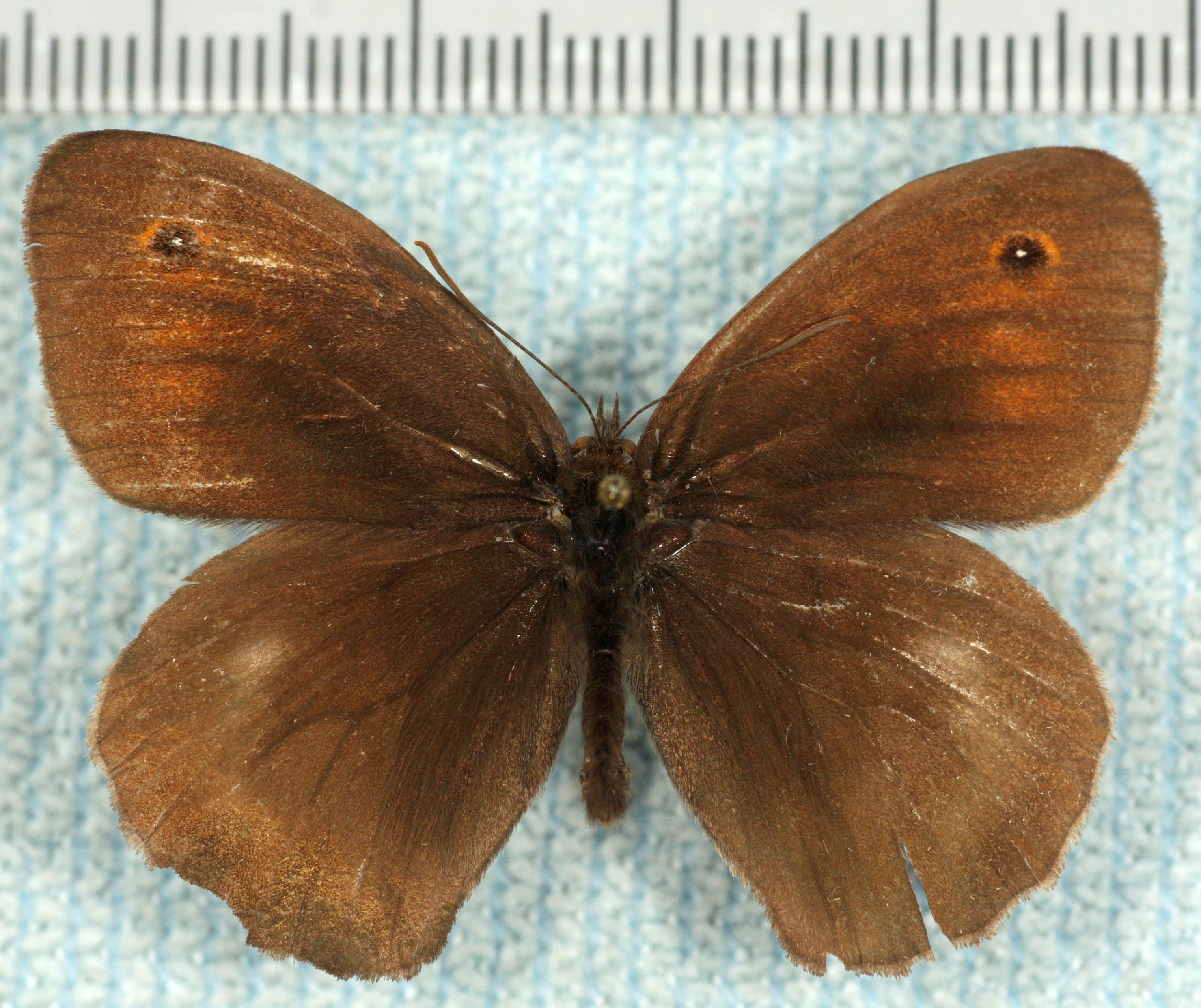 Male Meadow Brown Maniola jurtina